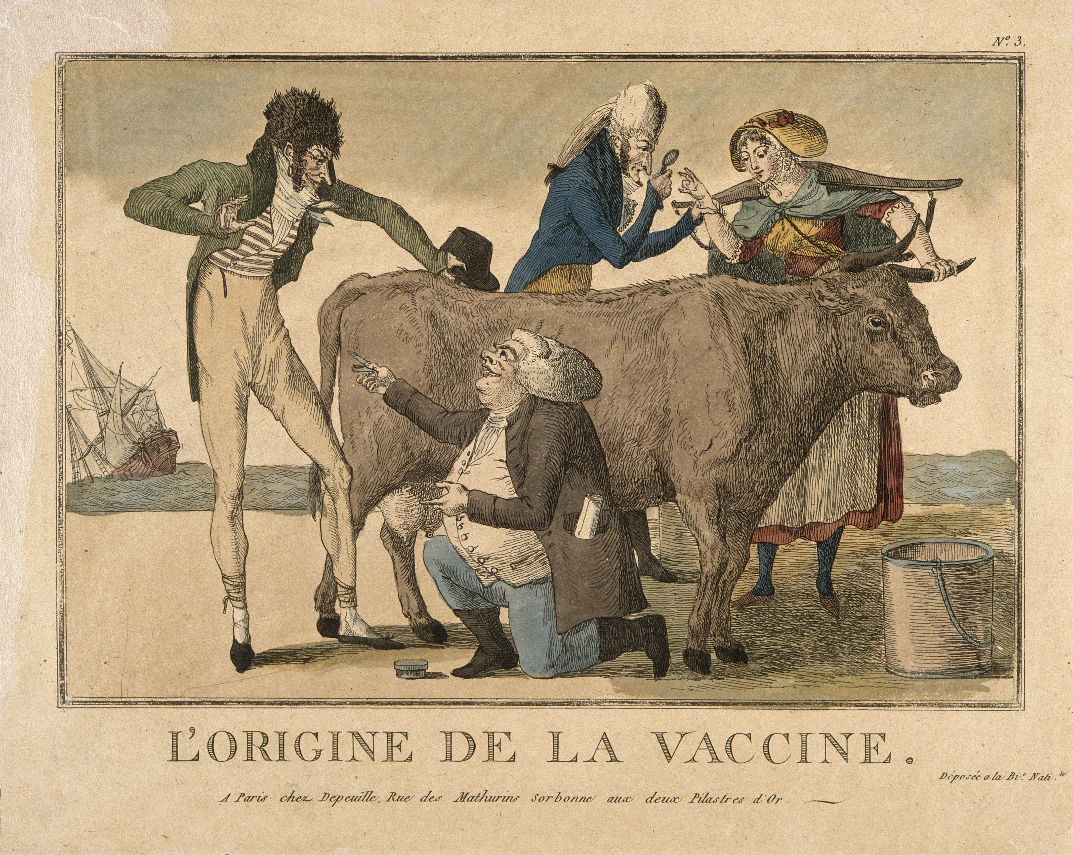 A physician inspects the growth of cowpox on a milking maid's hand while a farmer (?) passes another physician a lancet. Coloured etching, c. 1800. Iconographic Collections Keywords: humorous pictures; Caricatures; Edward Jenner; Vaccination; Caricatures as Topic; Disease Transmission, Infectious; Vaccines; farmers - england; cows - milking; Cowpox; Immunization; costume - england - 19th centu; Cattle; COWS; Sarah. Nelmes; etchings; Smallpox